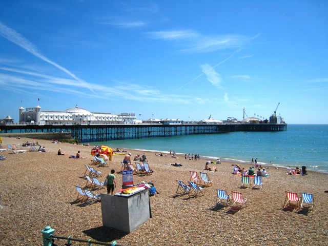 Brighton: The Palace Pier. Brighton pier on a gloriously hot and sunny July day.